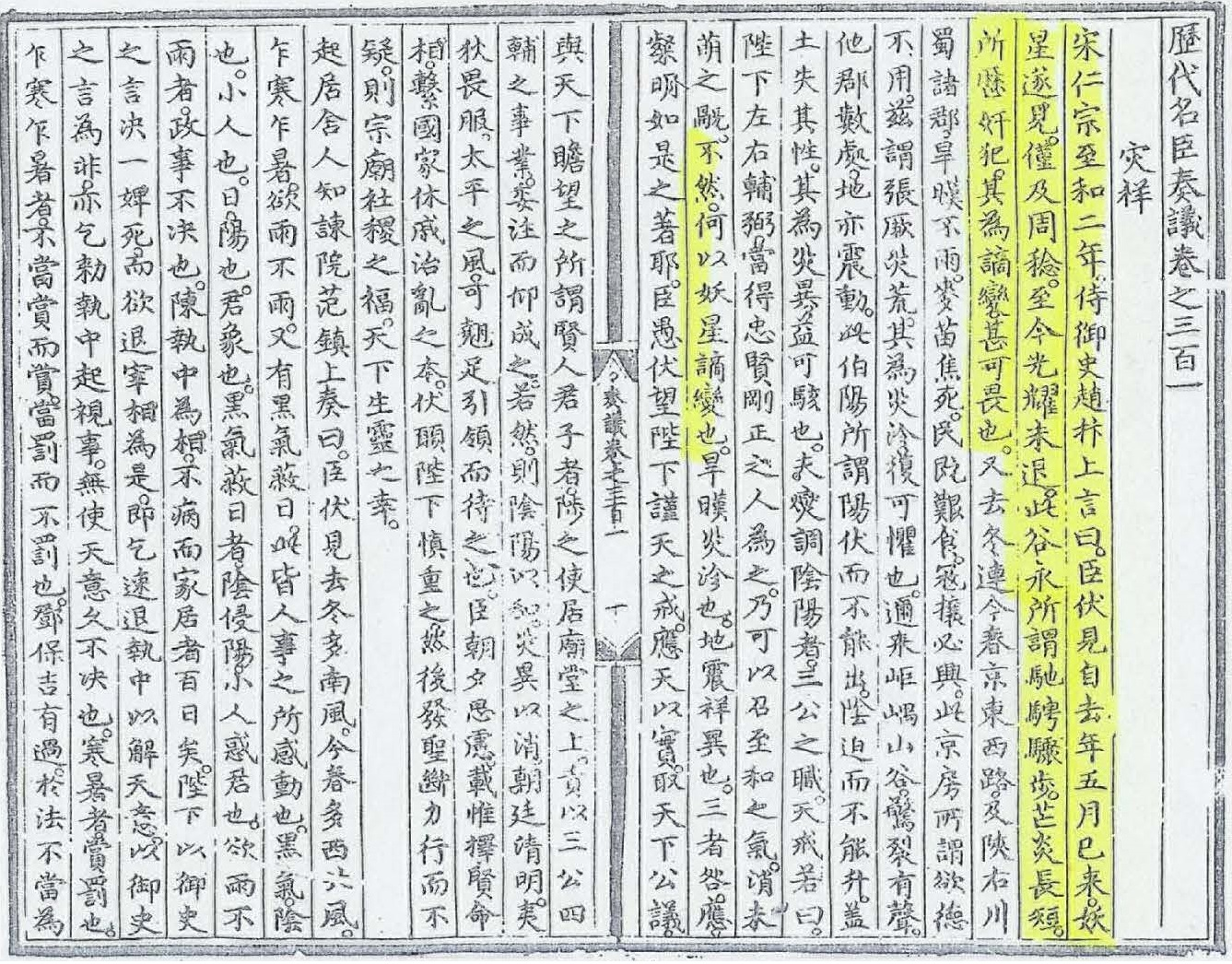 A 'guest star' identified as the supernova of 1054 in the pages of the Lidai mingchen zouyi (歷代名臣奏議), which dates to 1414. The highlighted passages refer to the supernova. Transcription: “宋仁宗至和二年。侍御史趙抃上言曰。臣伏見自去年五月巳来。妖星遂見。僅及周稔。至今光耀未退。此谷永所謂馳騁驟歩。芒炎長短。所厯奸犯。其為謫變。甚可畏也。⋯⋯ 不然。何以妖星謫變也。” Translation: “2nd year of the Zhihe reign period of Emperor Renzong of Song [1055]; Attendant Censor Zhao Bian submitted a letter saying: "Your servant considers that, since the 5th month of last year [when] the baleful star appeared, a full year has passed and until now its brilliance has not faded [lit. 'retreated']. This is what Gu Yong meant by 'its rapid movement, the variations in the length of its flaming rays, and the [asterisms] on which it has trespassed successively,' as a censorious anomaly it is greatly to be feared."”— in: Pankenier 2006, "Notes on translations of the East Asian records relating to the supernova of AD 1054."